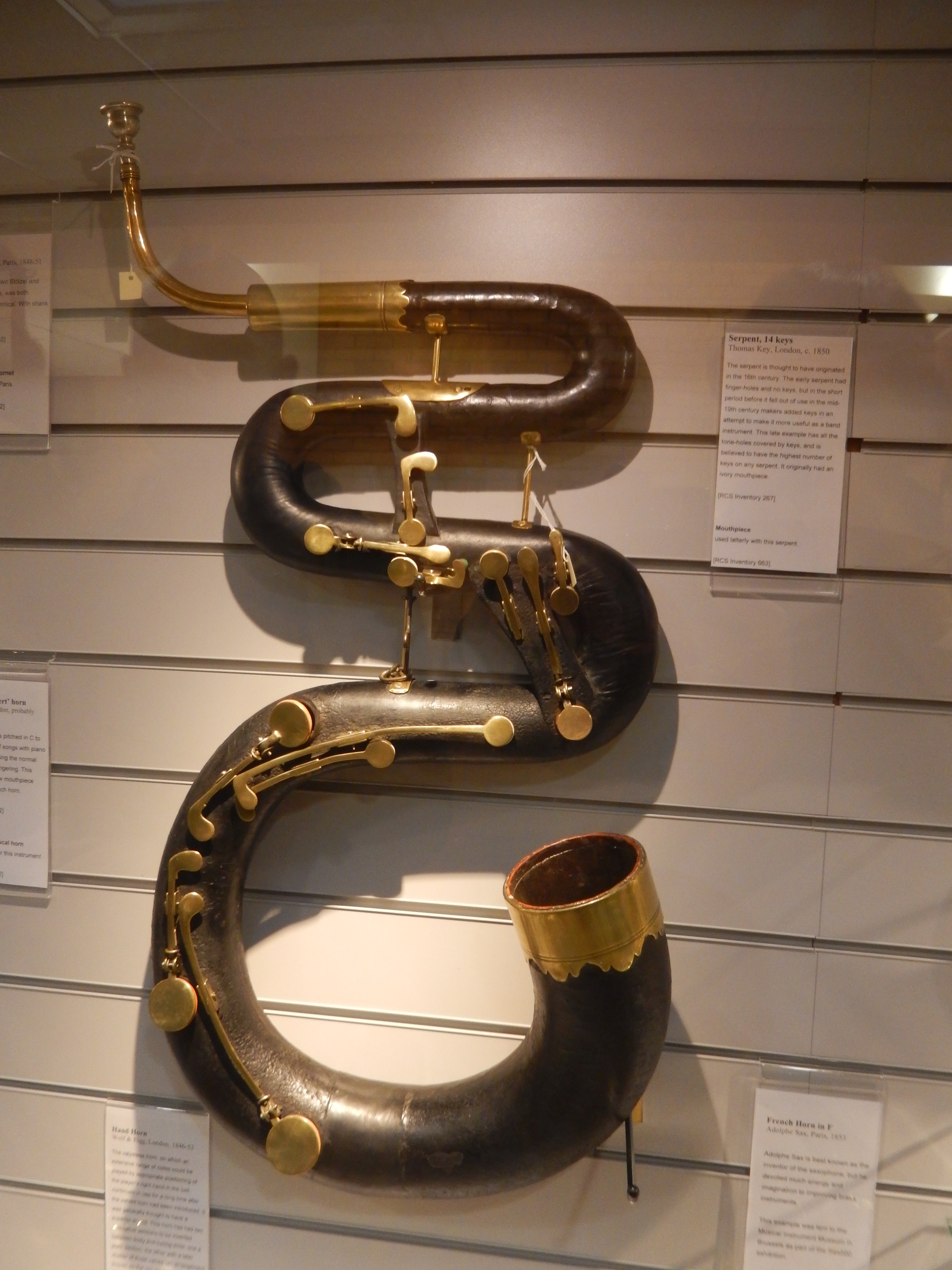 Serpent by Thomas Key, London 1850 in the Royal Conservatoire of Scotland, Glasgow. This 14 key instrument has all the tone holes covered with keys.